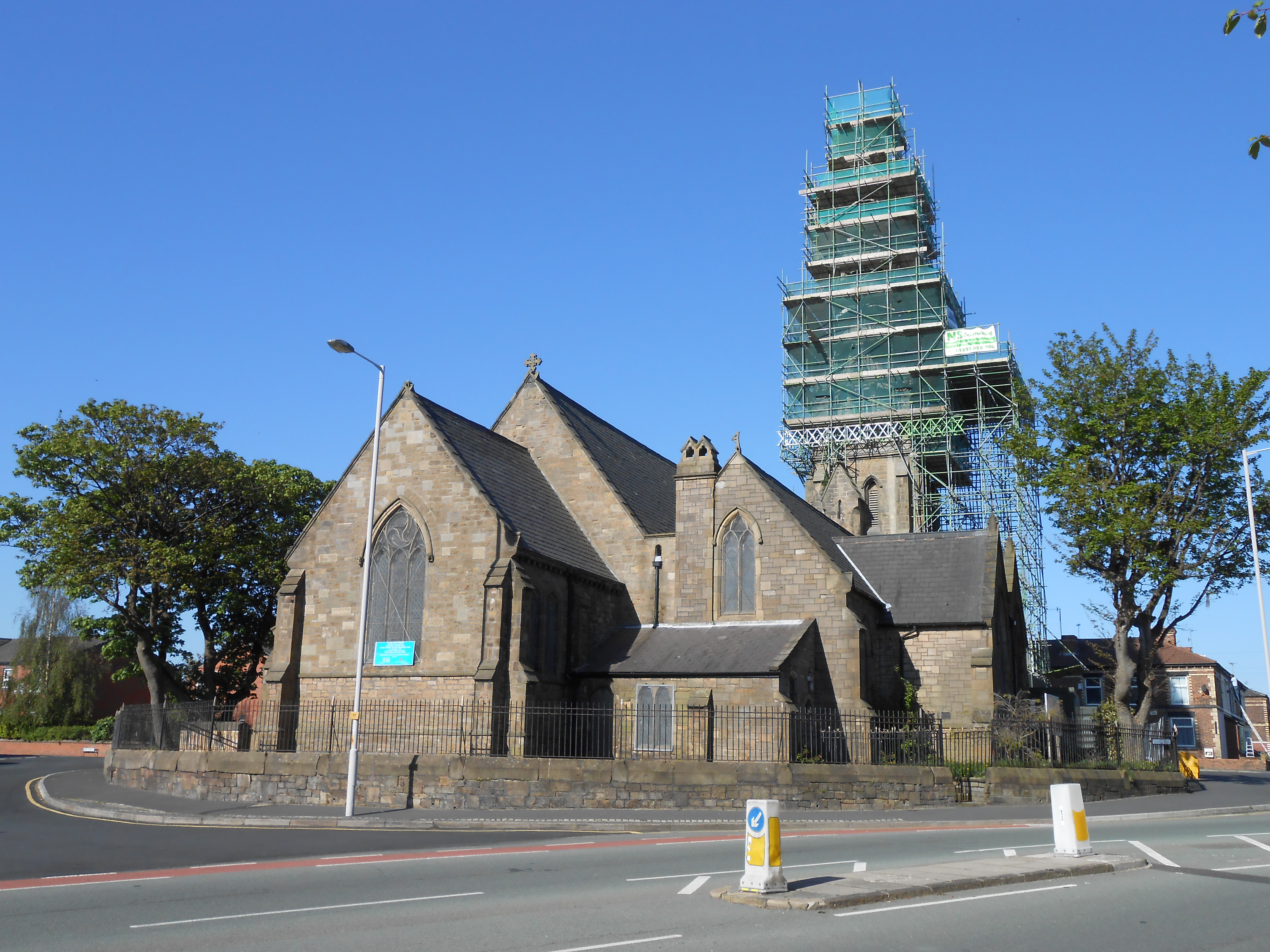 Renovation at St Paul's Church, Seacombe, Wallasey, Wirral, Merseyside, England.